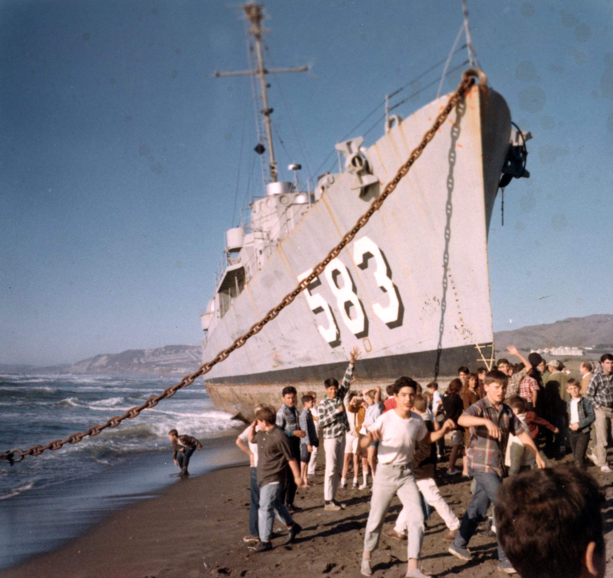 The decommissioned U.S. Navy destroyer escort USS George A. Johnson (DE-583) after it ran aground in October 1966. She decommissioned in September 1957 and entered the Pacific Reserve Fleet at the Mare Island Naval Shipyard, California (USA). Her name was struck from the U.S. Navy List on 1 November 1965 and she was sold for scrap. While being towed to San Diego for scrapping on the night of 12-13 October 1966, George A. Johnson broke free from her tow cable and ran aground at Sharp Park Beach, Pacifica, California. After attempts to refloat her proved unsuccessful, she was cut up and scrapped onsite over a period of six months.